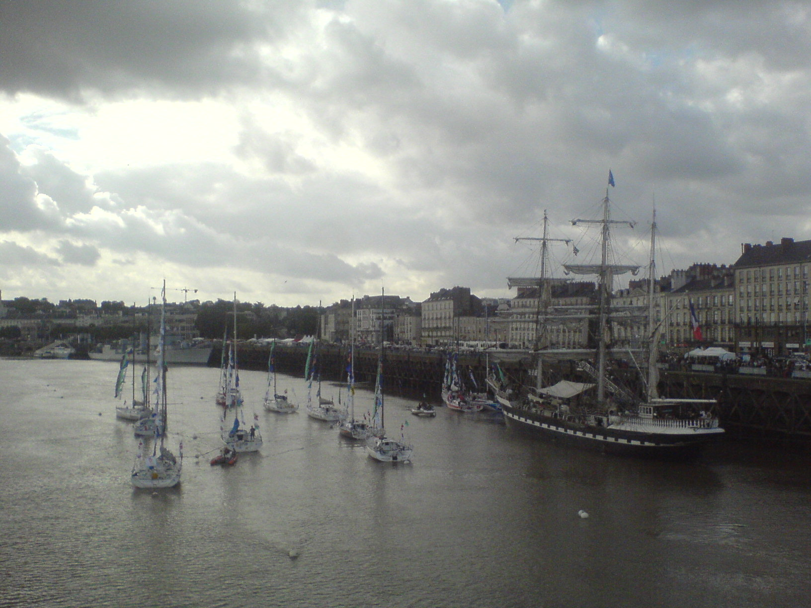 The sailboat "Belem" in Nantes for the "Solidaire du Chocolat" departure